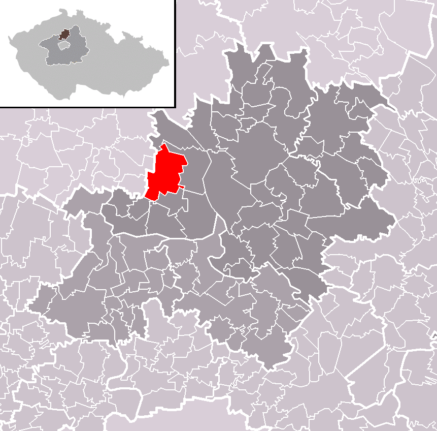 Location of Cítov municipality within Mělník District and administrative area of Mělník as a Municipality with Extended Competence.